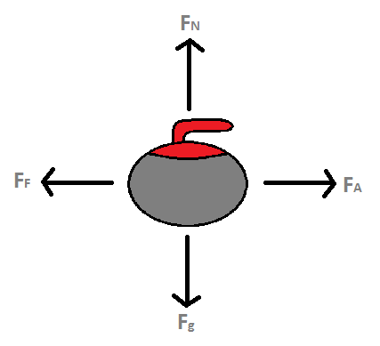 Curling Stone